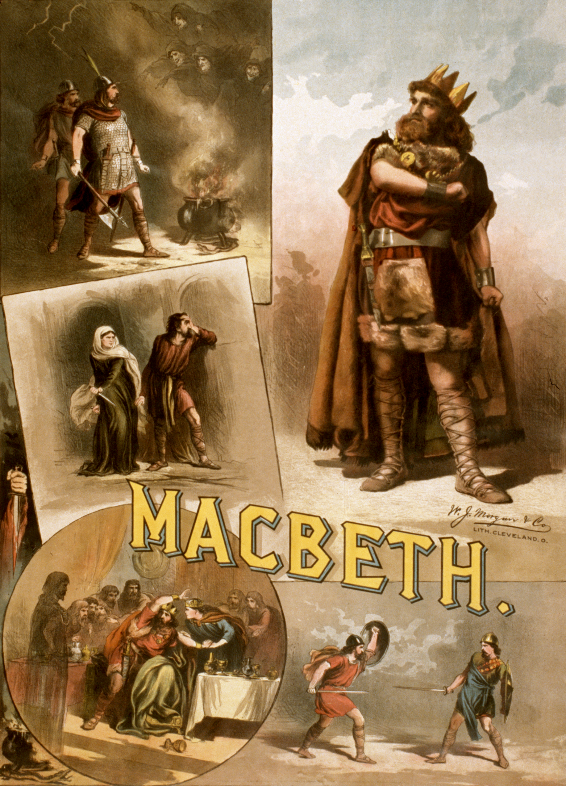 Poster of Thos. W. Keene in William Shakespeare's MacBeth, c. 1884.